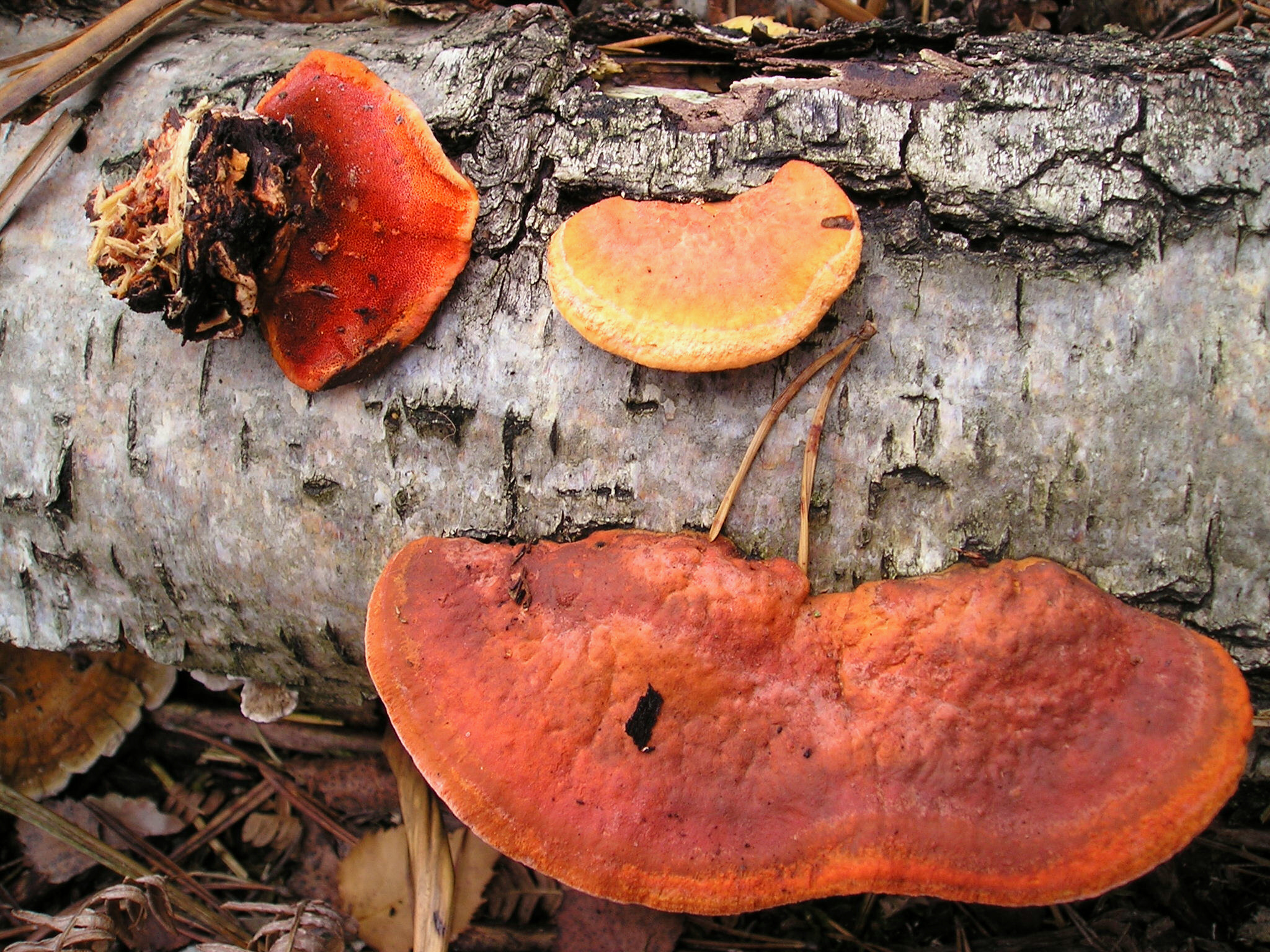 Pycnoporus cinnabarinus in a French wood near Rambouillet.